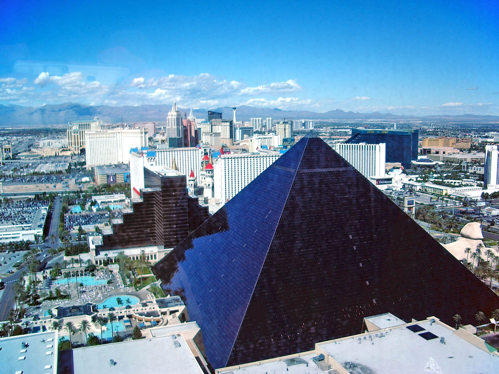 A picture of the Luxor Hotel in Las Vegas.